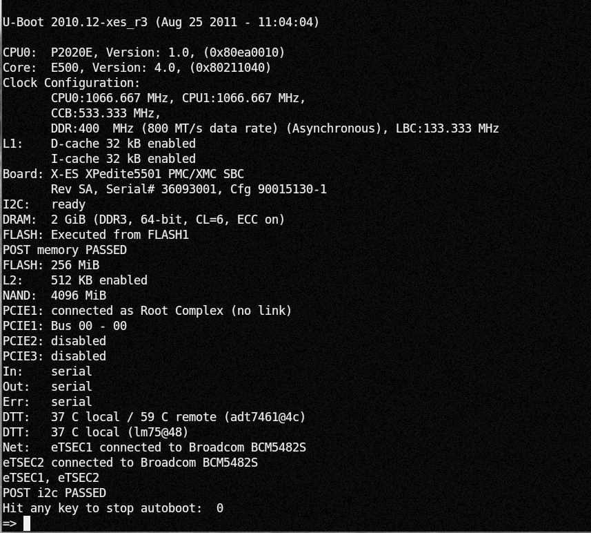 Screen capture of the u-boot bootup on XPedite5501